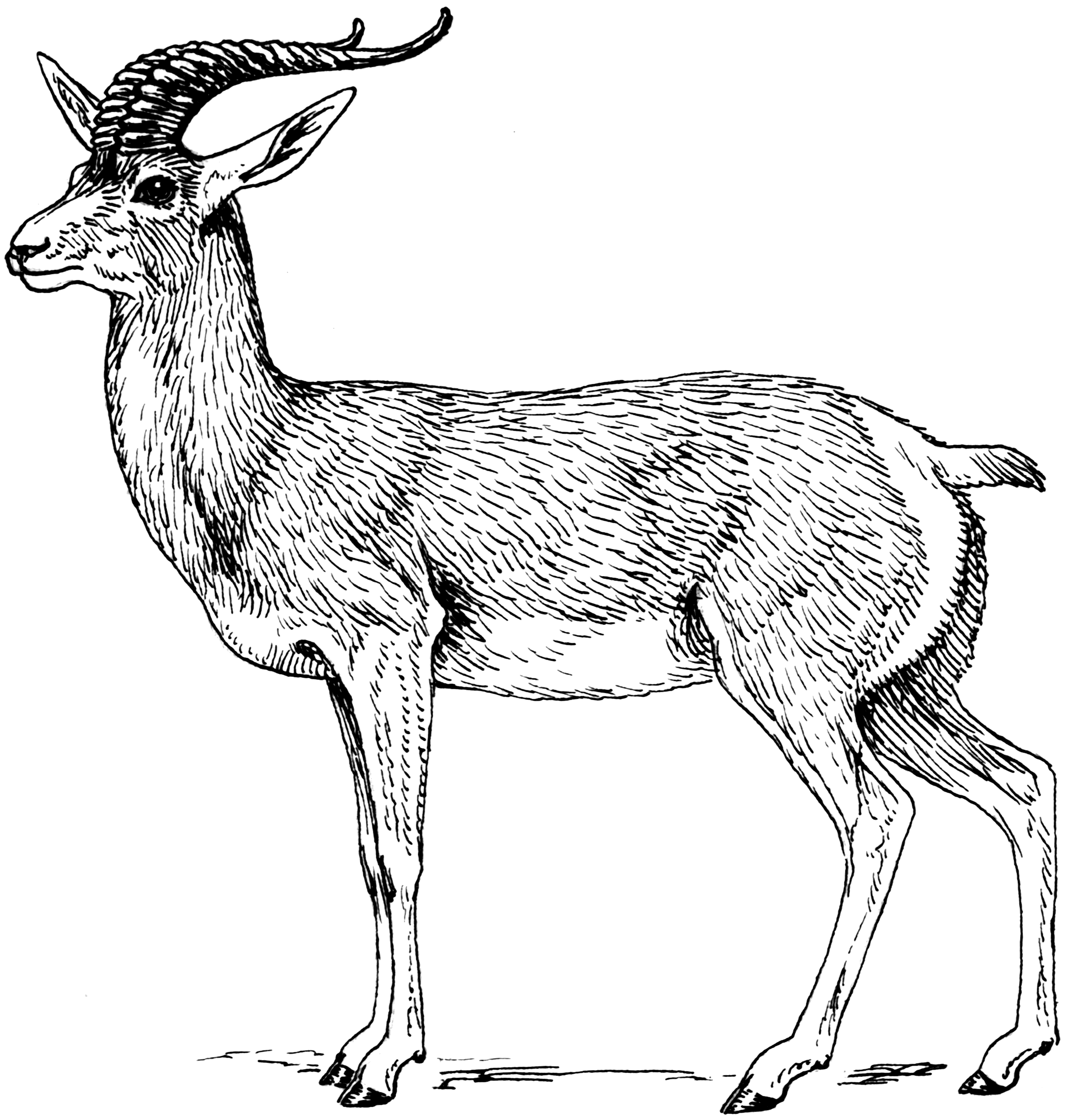 Line art drawing of a goa.